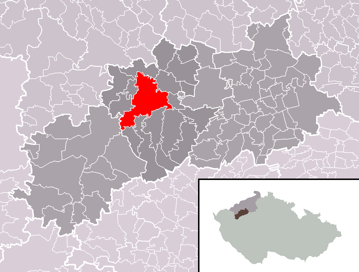 Location of Žatec town within Louny District and administrative area of Žatec as a Municipality with Extended Competence.